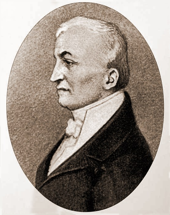 Rodofinikin Konstantin (1760-1838) - Diplomat & senator of Russia